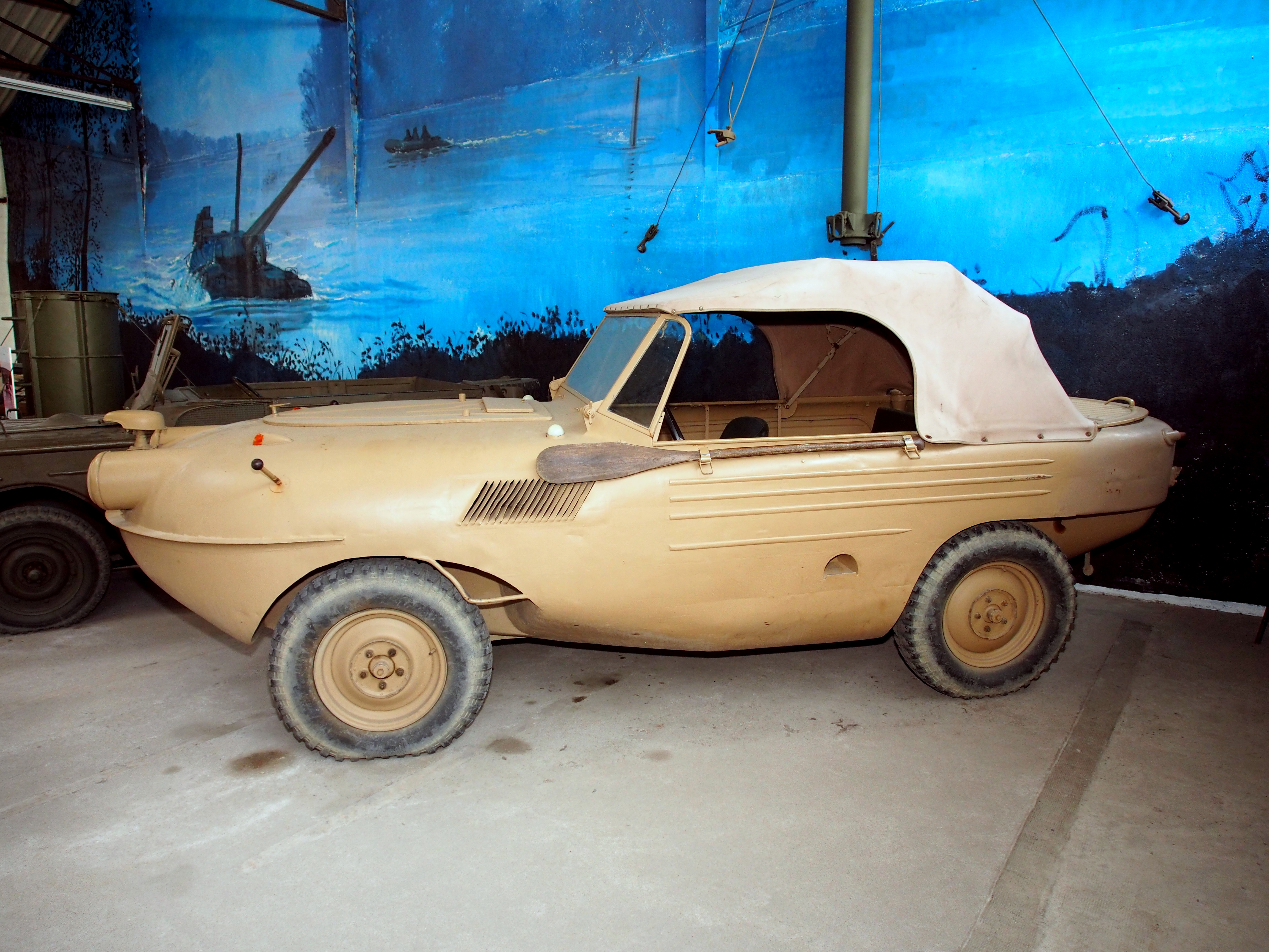 Photographed in the Musée des Blindés, France.